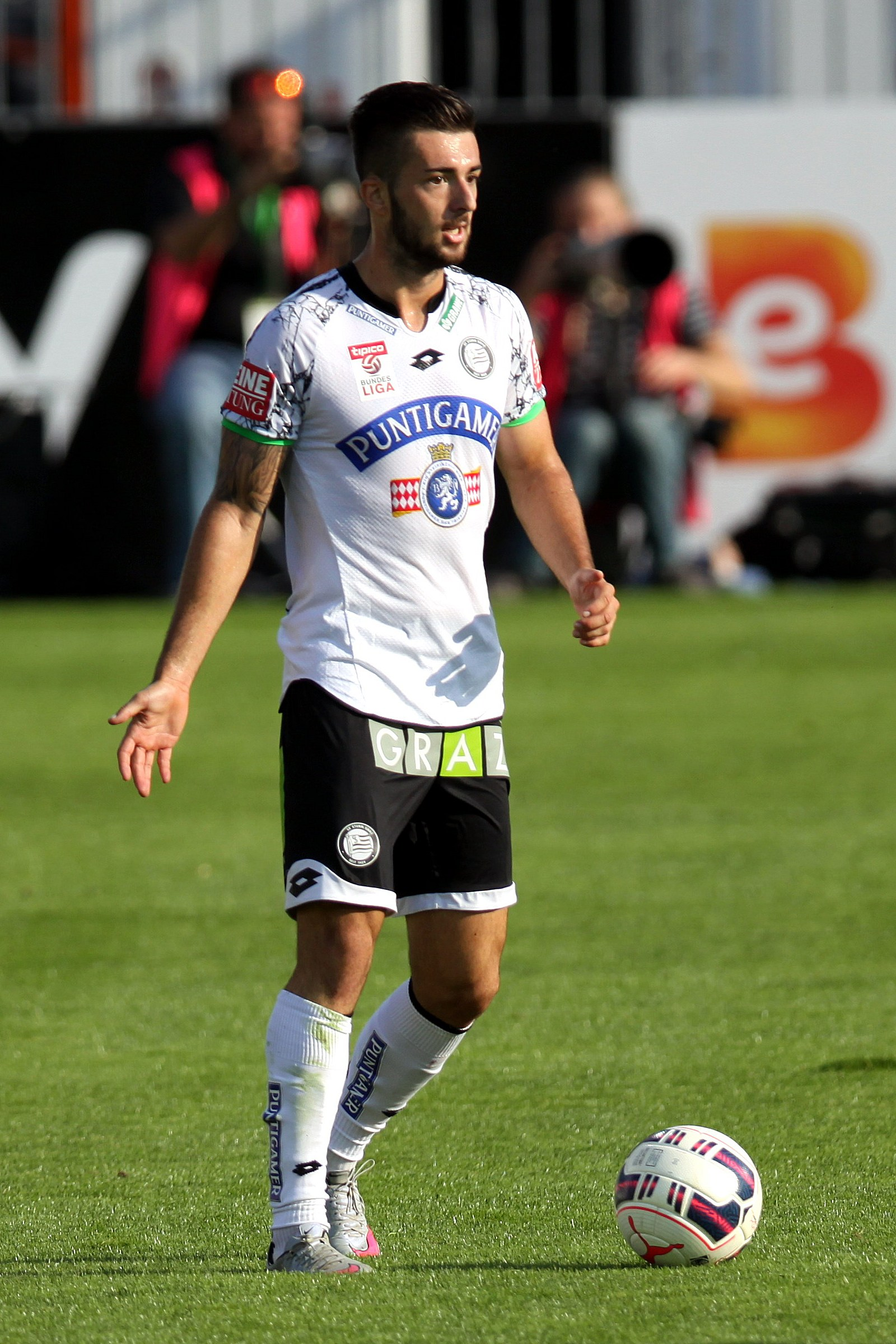 Match of the Austrian Football Bundesliga – SV Mattersburg (green shirts) vs. SK Sturm Graz (white shirts) on 2015-09-13 in Pappelstadion, Mattersburg – The photo shows Marvin Potzmann